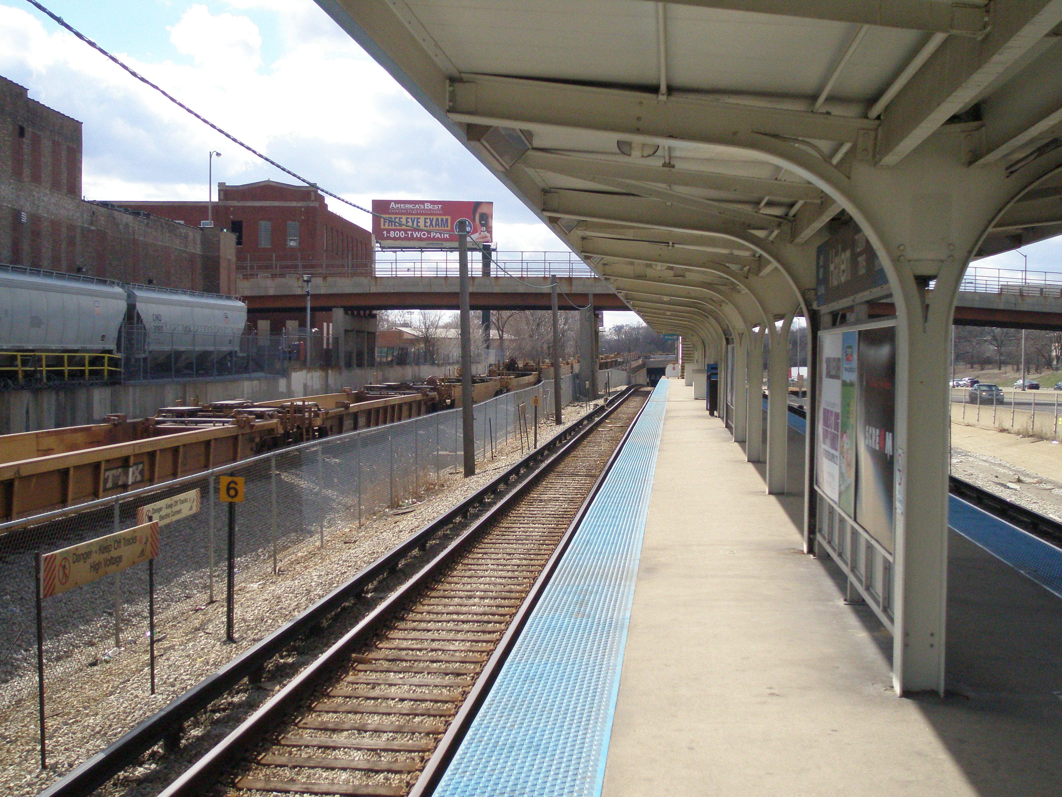 Looking down the downtown track at Harlem.